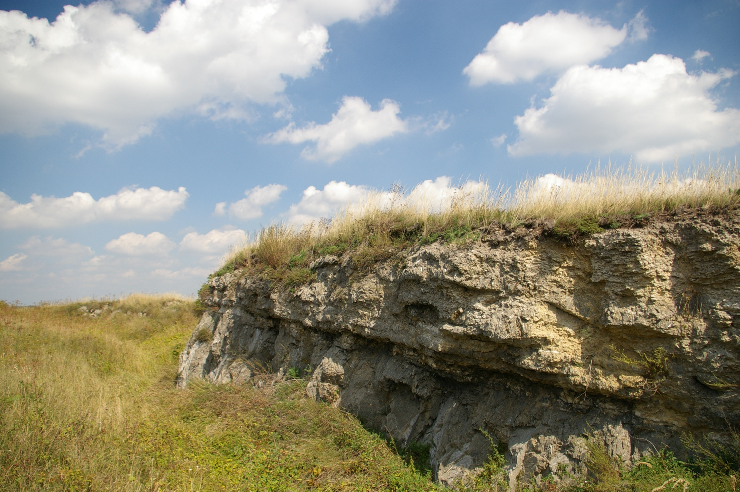 Nature reserve Góry Wschodnie in Poland, the outcrop of gypsum